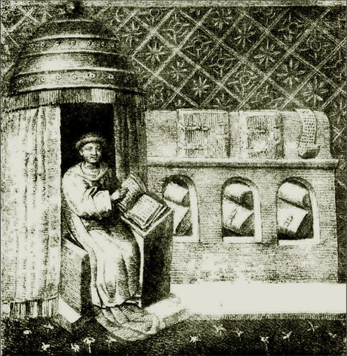 Medieval Miniature (14th century) representing acques de Guise or "Iacobi of Guisia", a religious (Cordelier), first theologian, then historian in the second part of his life. It is shown here in a scriptorium (in Paris when he was a theologian ?, Or in Valenciennes (North of France) in his life as a columnist?)